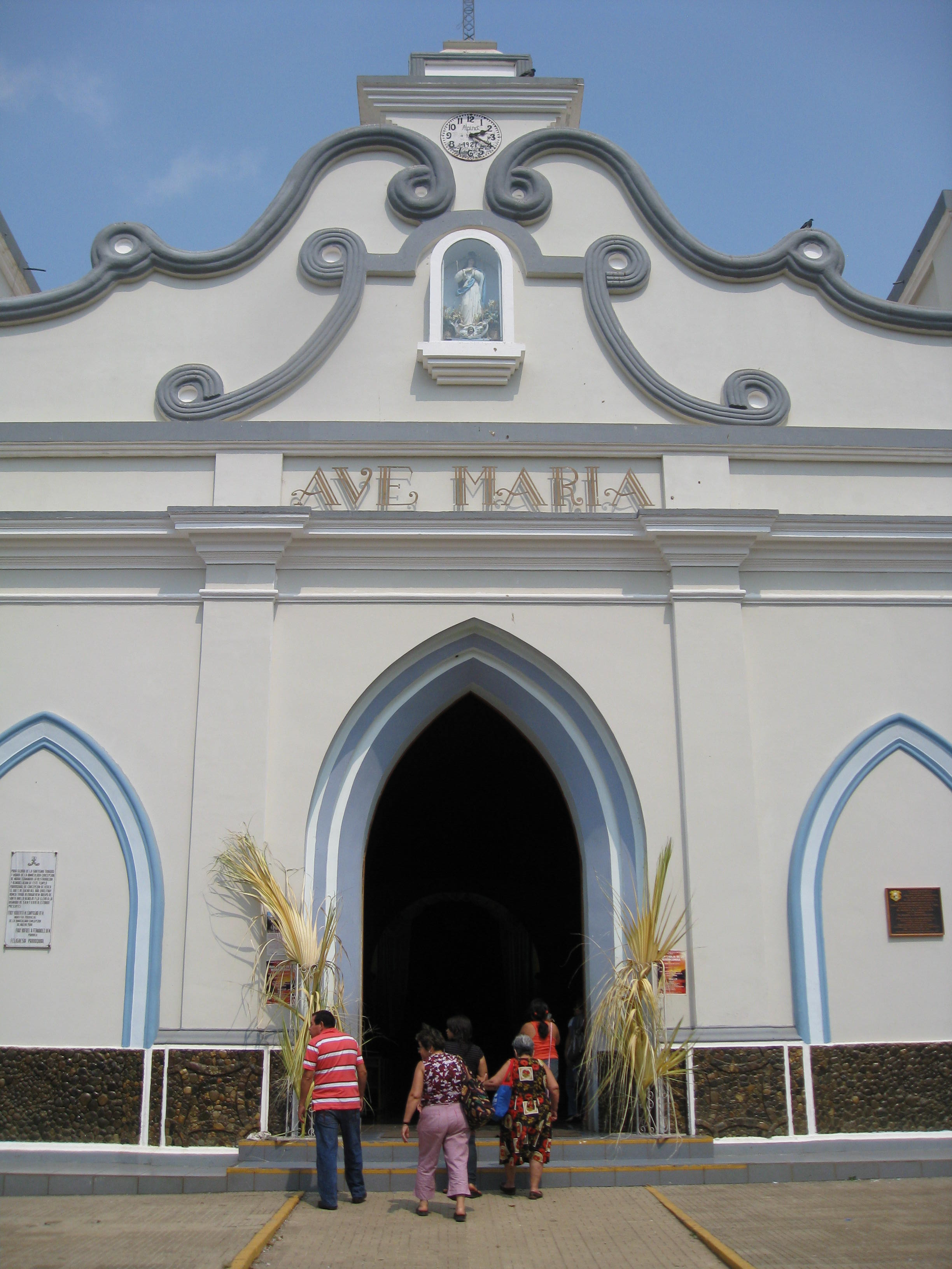 Cathedral